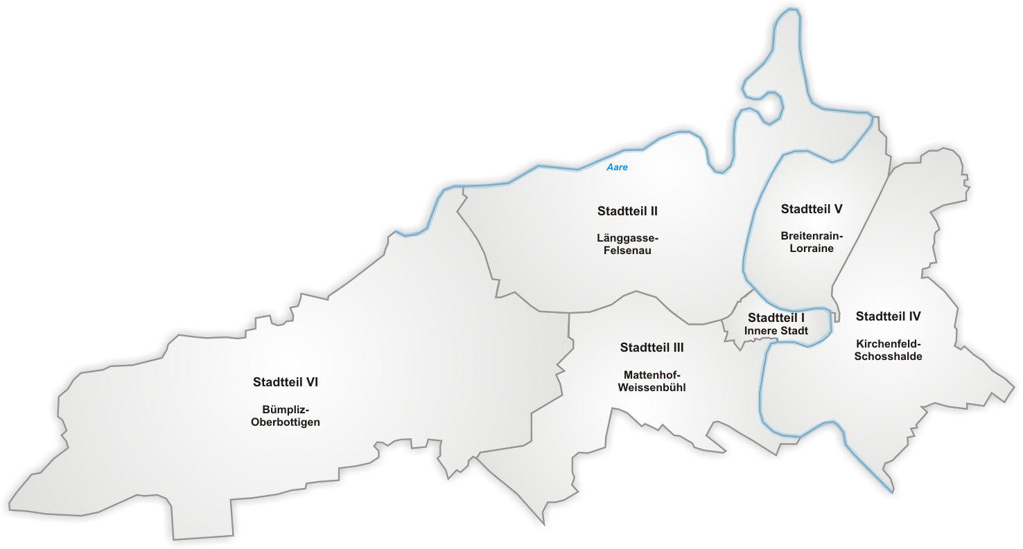 Districts of Berne